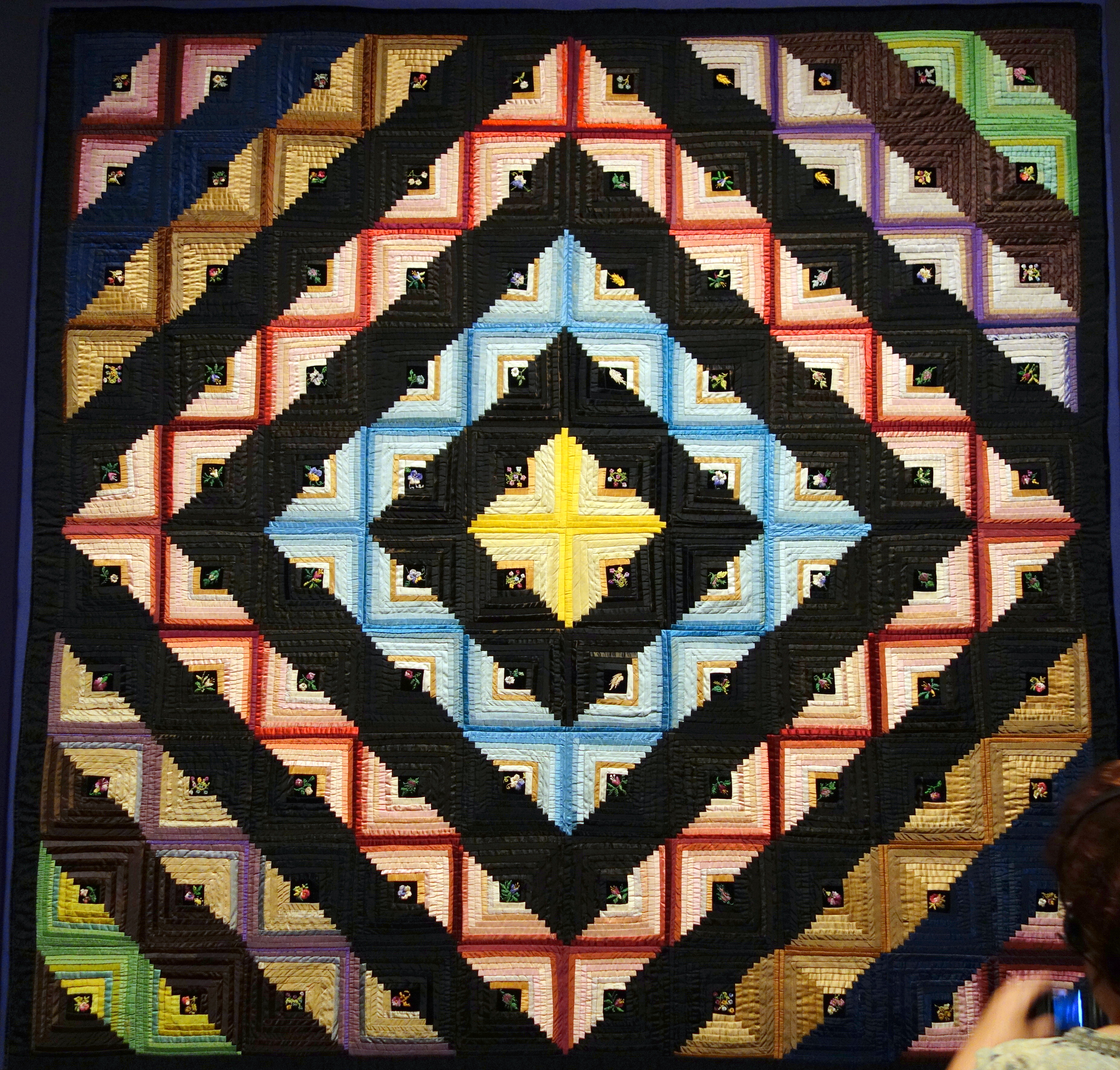 Quilt in the Museum of Fine Arts, Boston, Massachusetts, USA. Photography of this exhibit was permitted without restriction. This artwork is in the public domain because the artist died more than 70 years ago.